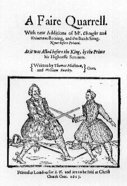 Title page of A Fair Quarrel